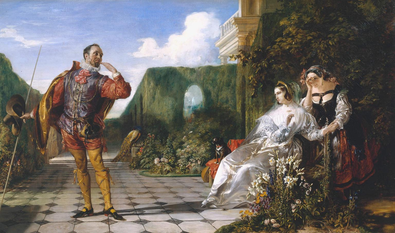 This picture shows an incident in Act 3 scene 4 of William Shakespeare's play Twelfth Night.